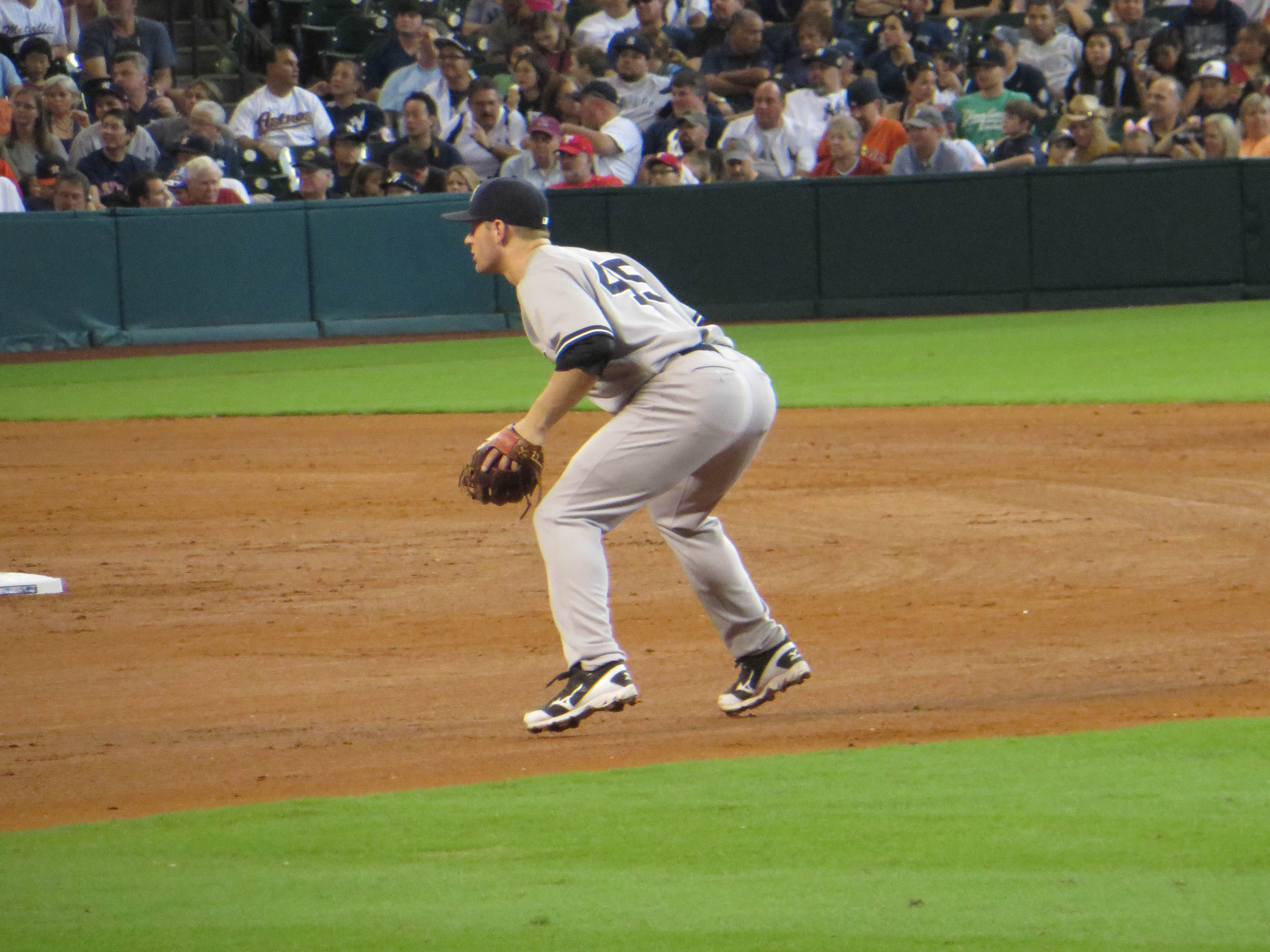 New York Yankees second baseman David Adams prepares to field a ball at Minute Maid Park on September 29, 2013.